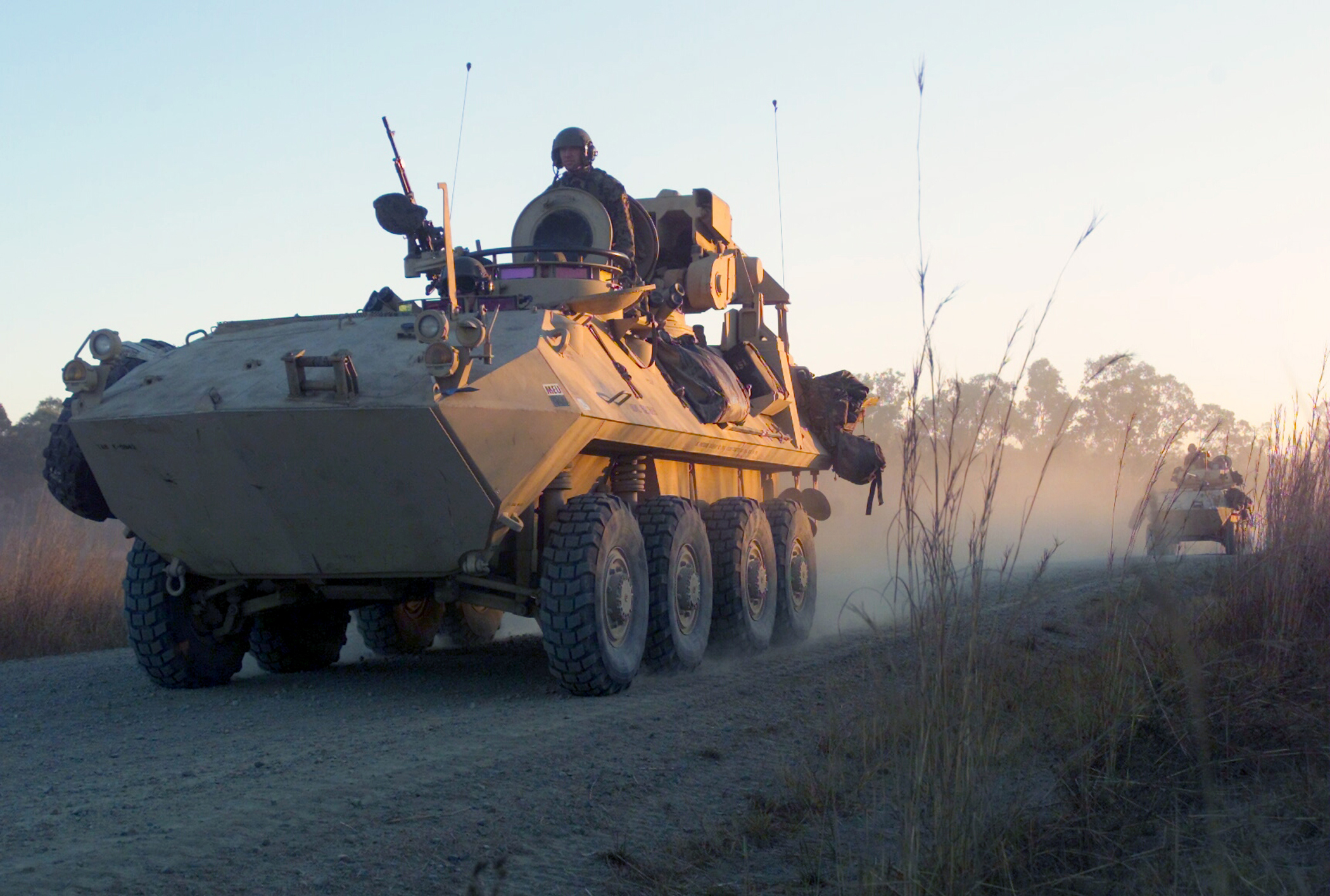 Shoalwater Bay, Queensland, Australia (Sept 16, 2003) -- Light Armored Vehicles (LAV) assigned to 2D Battalion 3D Marines, advance on the front lines of the simulated war with Australian forces, Shoalwater Bay Training Area, Queensland Australia, during this year’s Crocodile Exercise. The goal of the Crocodile Exercise is to improve bilateral combat readiness and interoperability between American and Australian Armed Forces through combined training operations. U.S. Marine Corps photo by LCpl James P Douglas. (RELEASED)